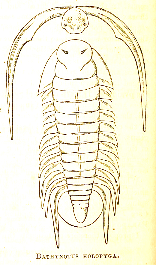 A drawing of Bathynotus holopygus from the publication in 1860 by james Hall where the genus was first described